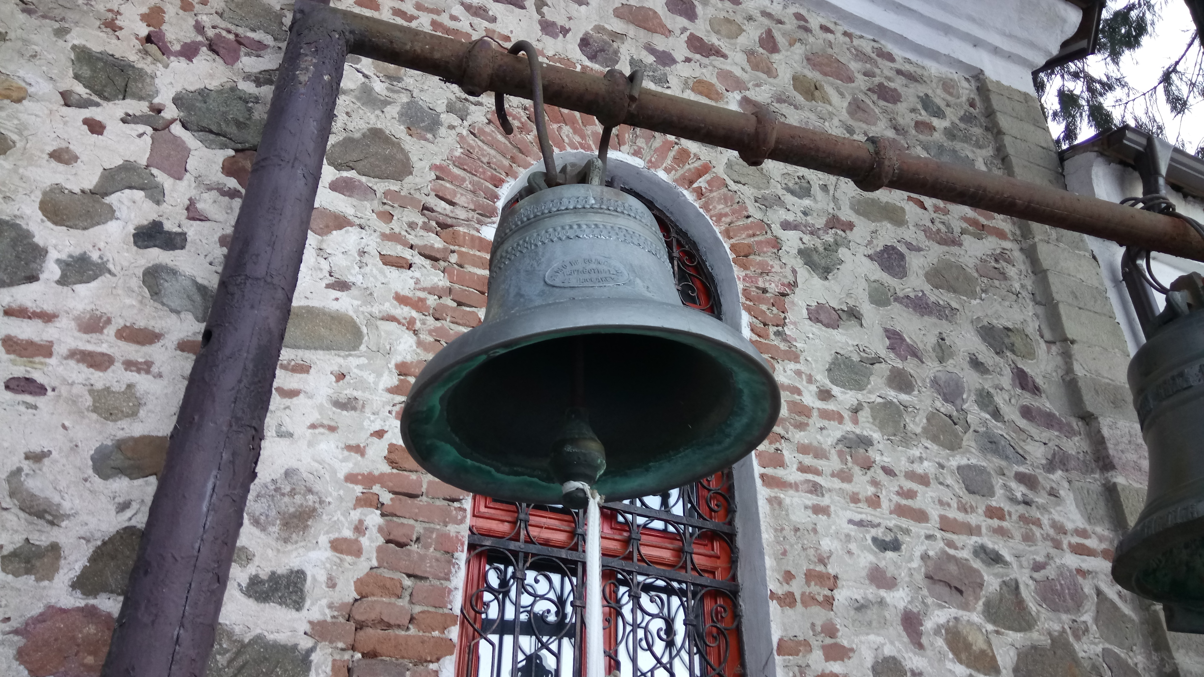 Veleganov Church Bell in German Monastery, Bulgaria